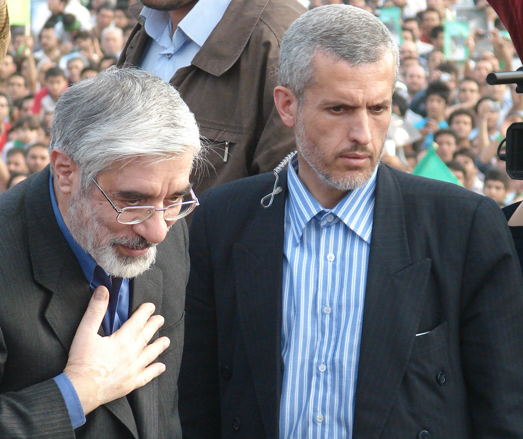 Mir Hussein Mousavi is Iranian reformist and government oposition and green movement Leader. he is in badr stadium in tehran among his supporters before iran 2009 presidental election. ahmad yazdanfar (his bodyguard)